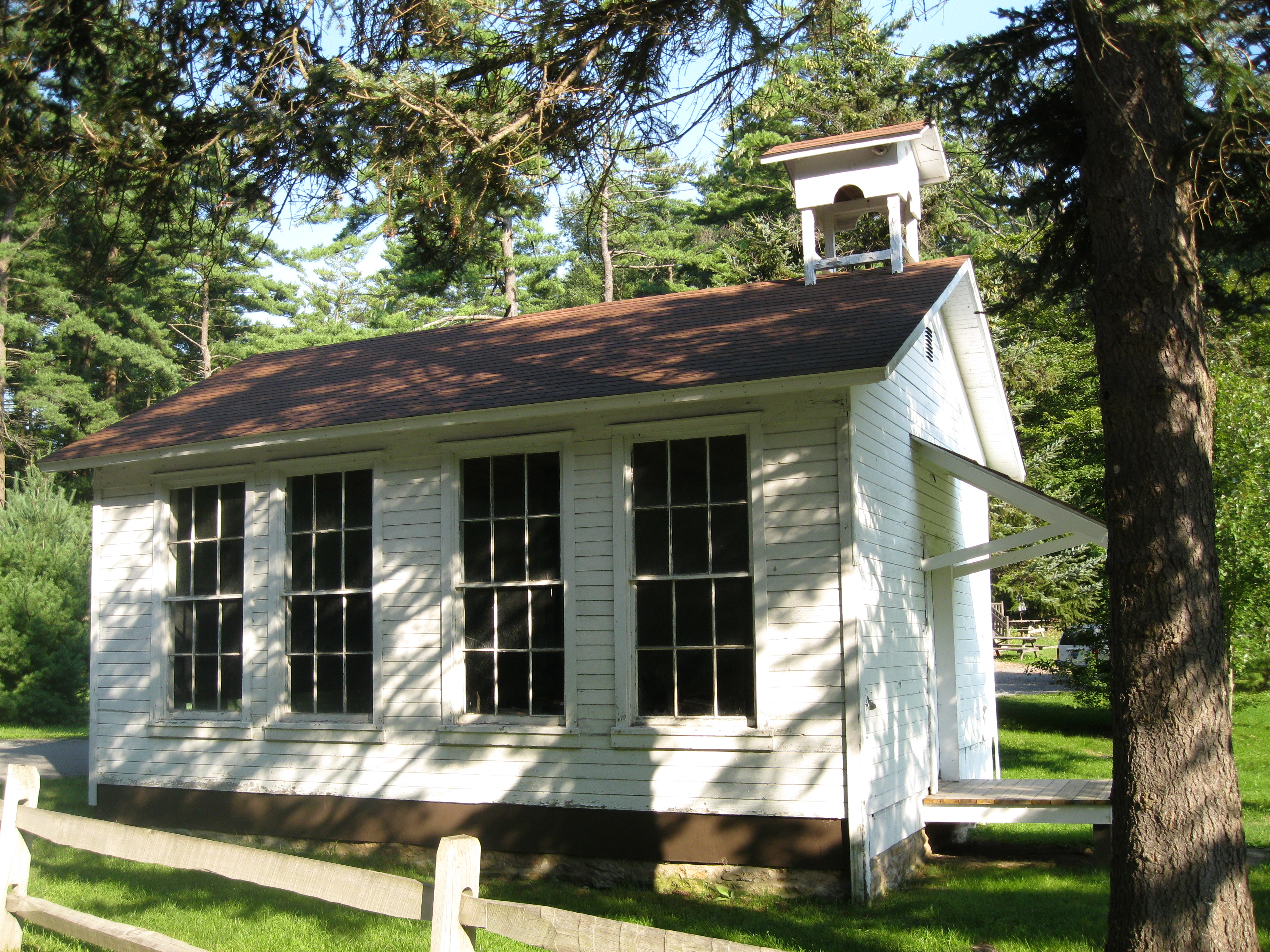 Moshannon School for the lumber village of Antes (built late 1800s, after 1879) at Black Moshannon State Park, near Phillipsburg, Rush Township, Centre County, Pennsylvania, USA.